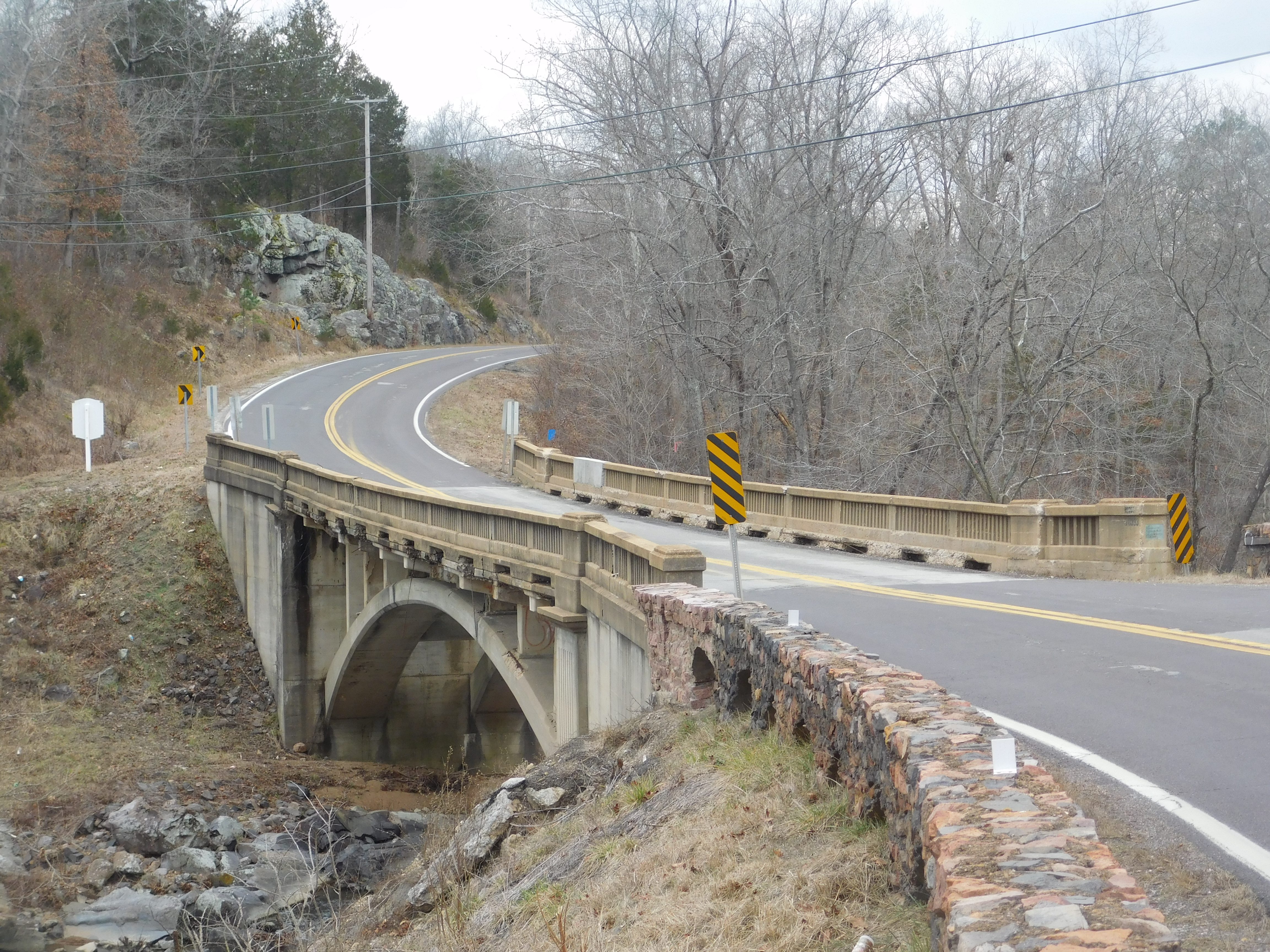 Missouri Route 72 crossing an old bridge over the Stouts Creek in Arcadia Valley, Missouri.